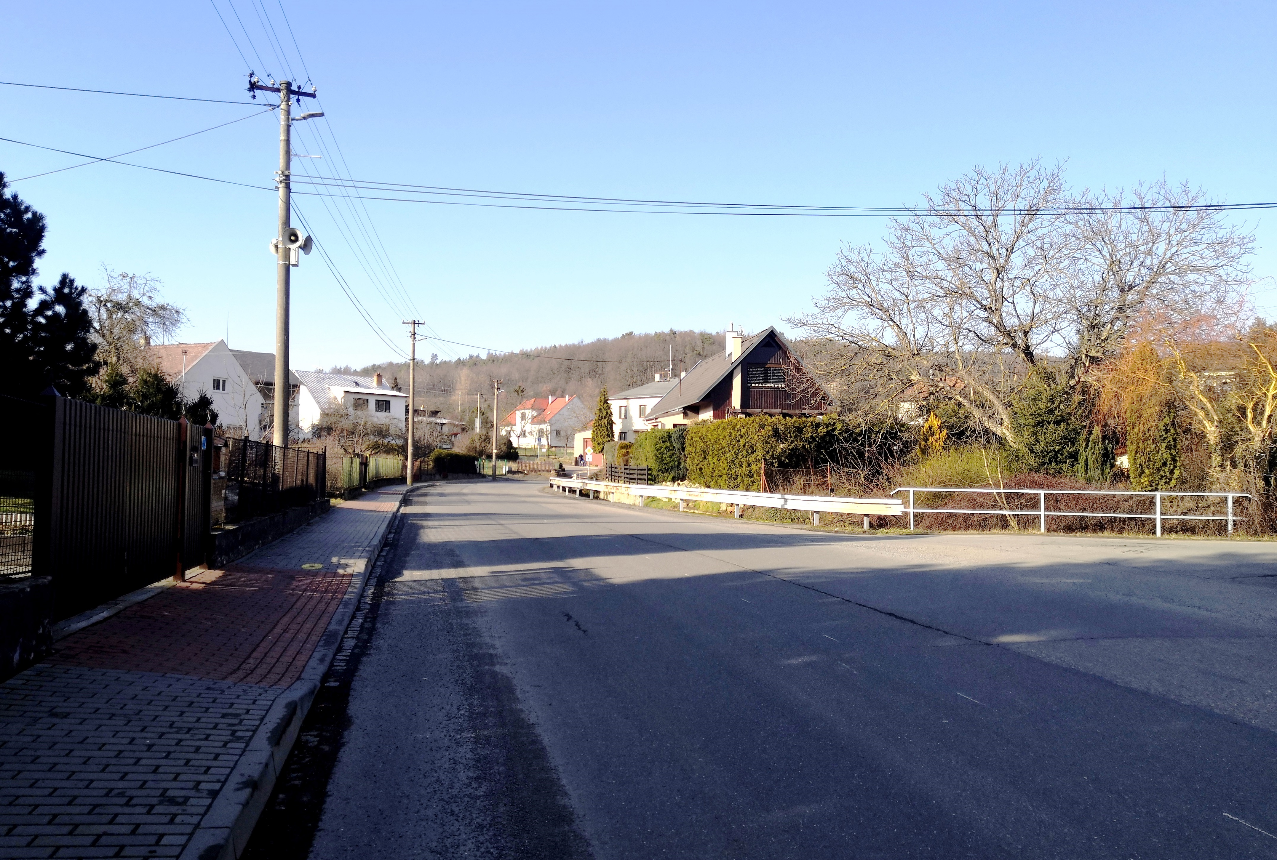 Lukoveček, Zlín District, Czechia.